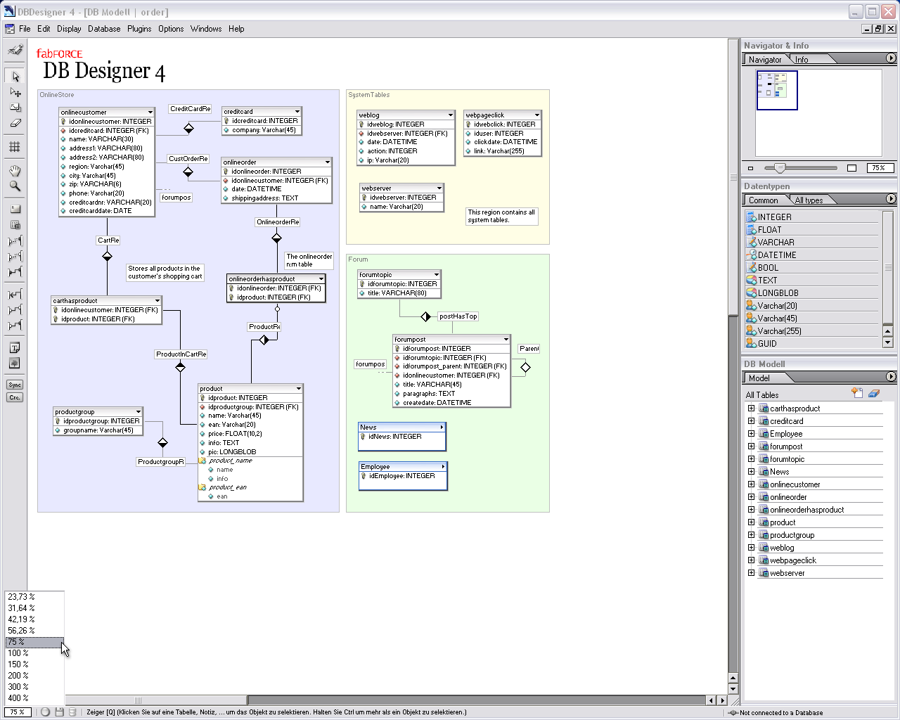 Screenshot of DBDesigner4